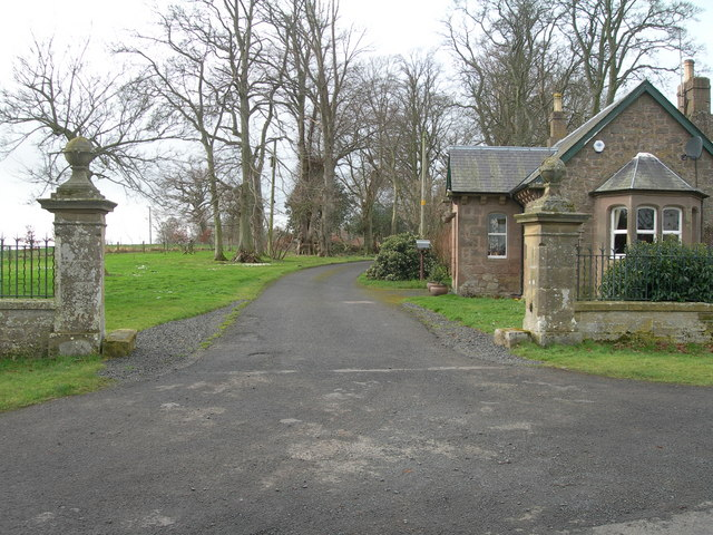 West Gatehouse (Swinton House) Identical to North Gatehouse submitted for NT8147